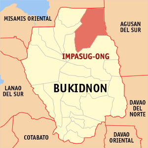 Map of the Bukidnon showing the location of Impasug-ong